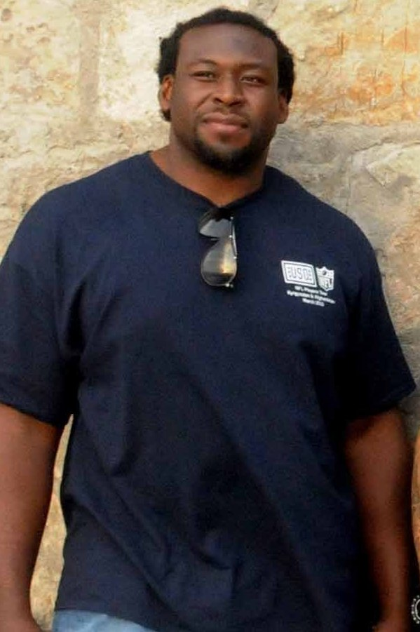 Davin Joseph, Stevonne Latrall Smith, Roland Ã¢â‚¬Å“ChampÃ¢â‚¬Â Bailey, Von Miller, Justin James Ã¢â‚¬Å“J.J.Ã¢â‚¬Â Watt and DÃ¢â‚¬â„¢Qwell Jackson, pose for a photo at Kandahar Airfield, Kandahar province, Afghanistan, March 18, 2013. This is the first USO tour for the National Football League players.